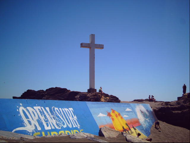 Saint Peter Cross in Curanipe (Pelluhue)